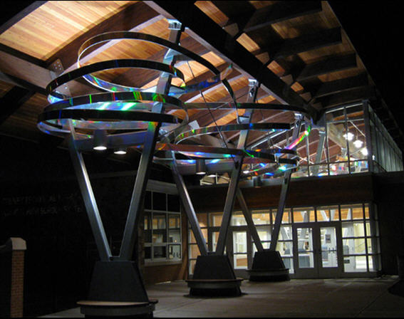 Dream Weaver 2008 Welded aluminum, holographic material. Howell Cheney Technical High School, Manchester, Connecticut Exterior sculpture: 75’ long, 30’ wide, 20’ high Atrium sculpture: 75’ long, 30’ wide, 20’ high